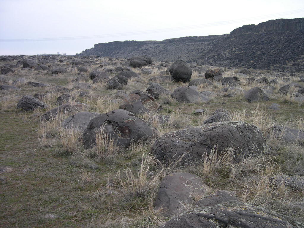 Celebration Park Idaho melon gravel basalt